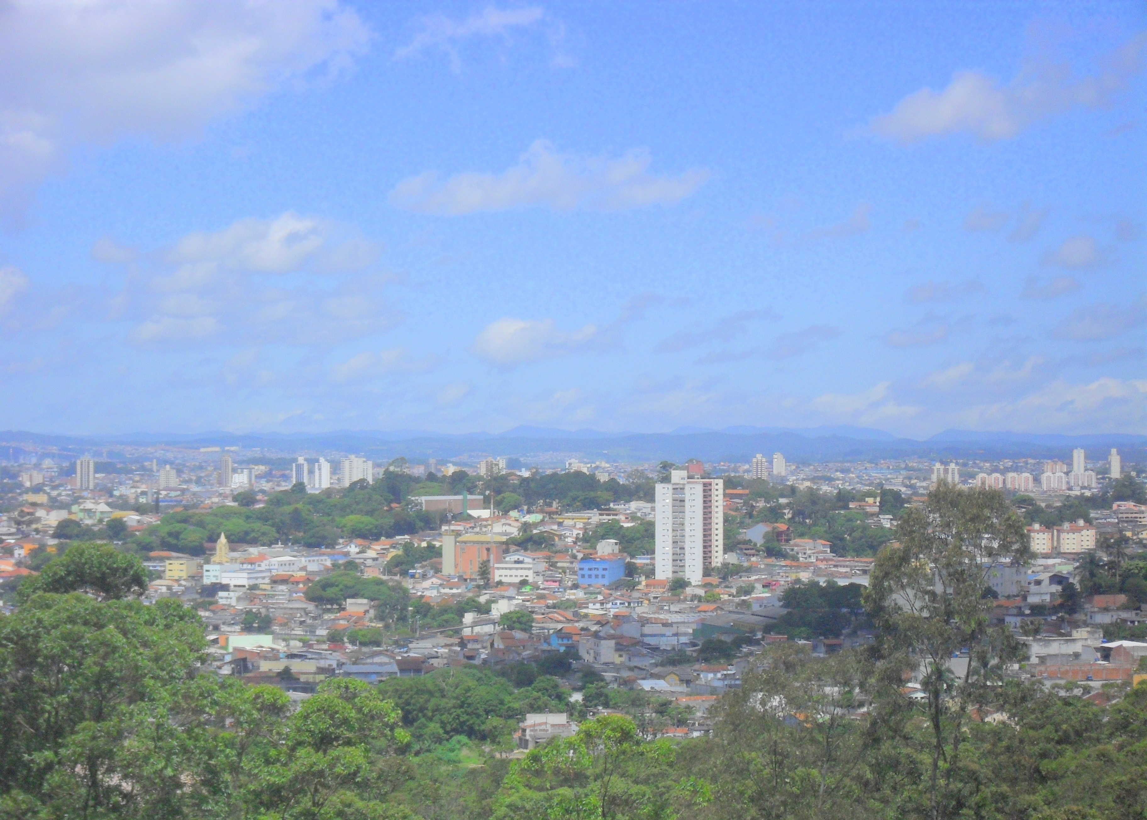 View of Poá City